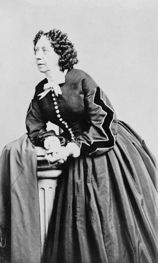 Sara Payson Parton (1811-1872), a columnist, humorist, and novelist who wrote under the pseudonym "Fanny Fern".